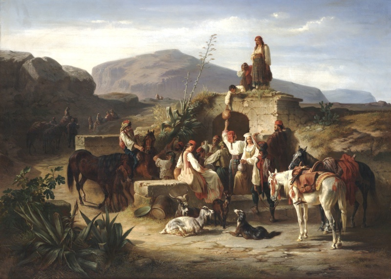 Dalmatian Peasants at the Spring by Eugen Adam, 1869, oil on canvas, 40 in. x 56 in. (101.6 cm x 142.24 cm), Crocker Art Museum